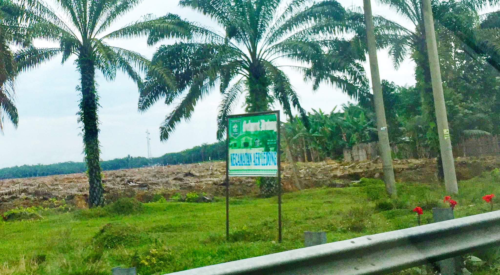 welcome gate to Aek Ledong, Asahan